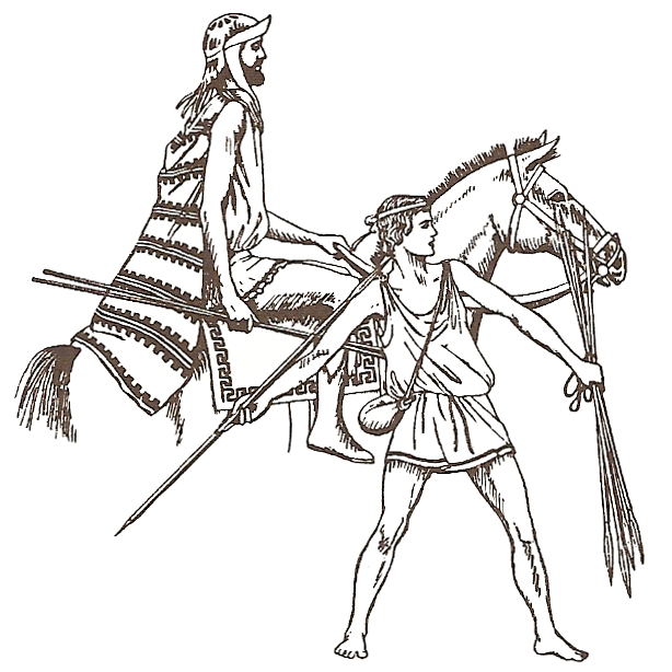 Greek soldiers of Greco-Persian Wars (reconstruction). Thessalian horseman and gymnites (γυμνίτης) – light-armed soldier with darts and bag with stones.